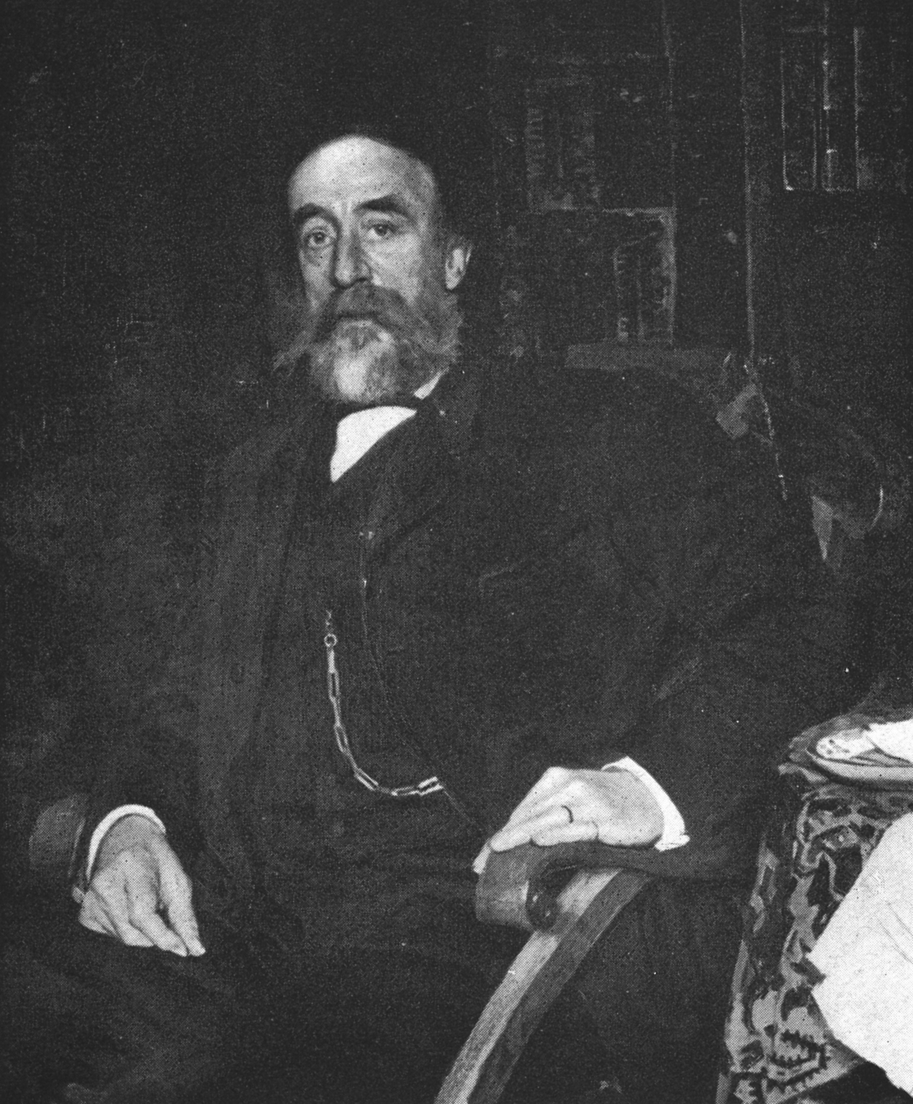 Johan Wilhelm Smitt (1821-1904), Swedish businessman and donor.